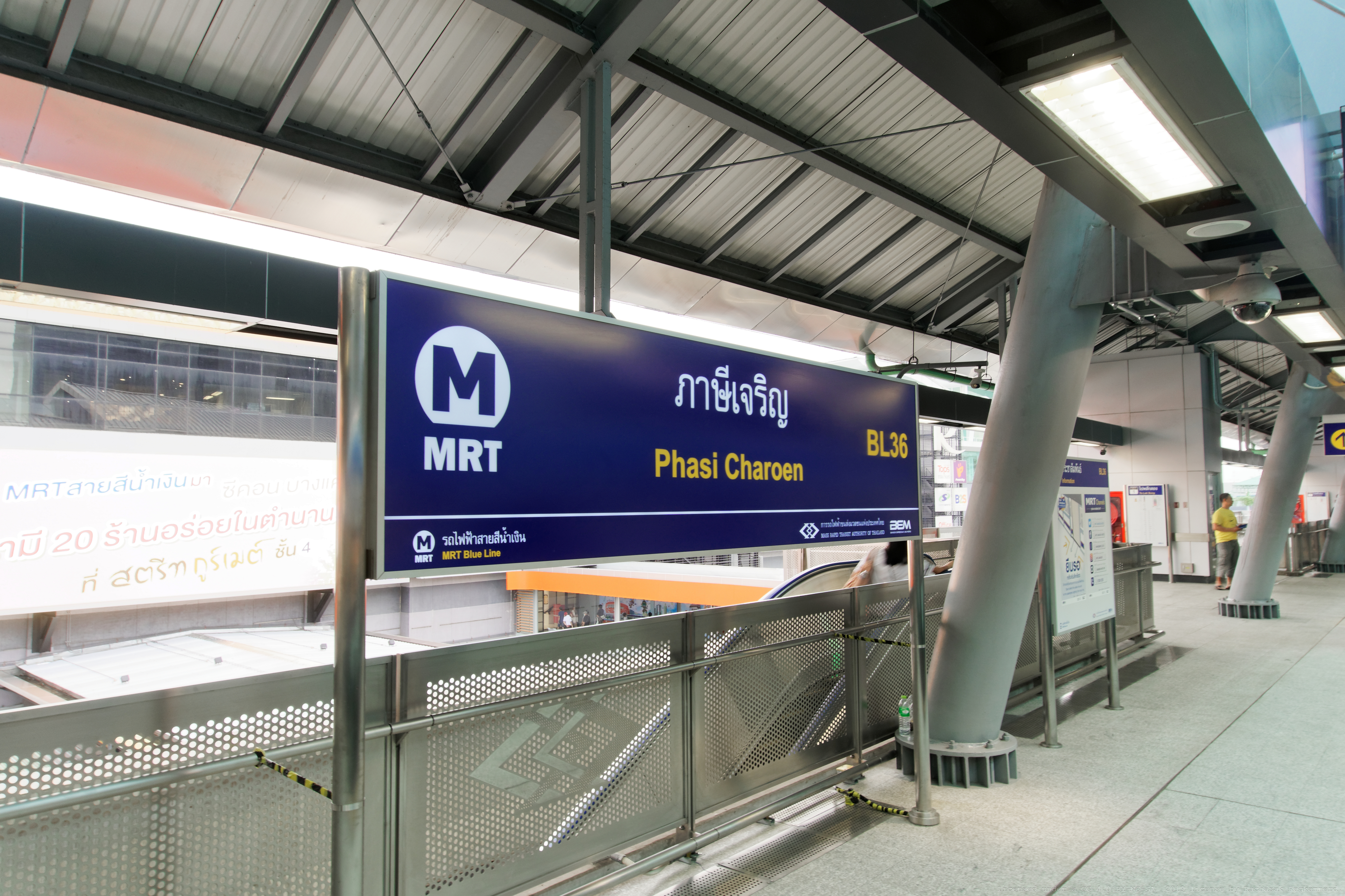 MRT Phasi Charoen station: traditional station sign